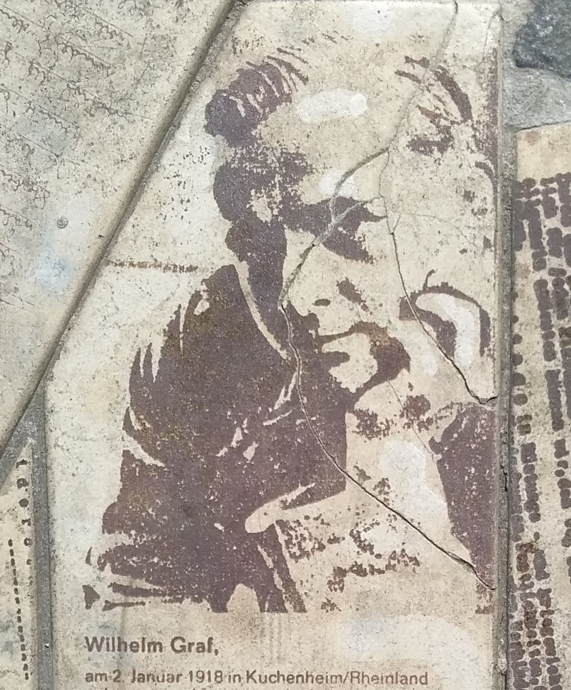 Part of sidewalk monument near Munich University, depicting White Rose member Willi Graf